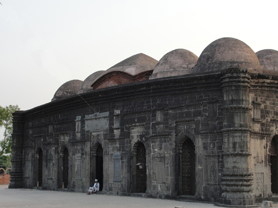 Sona Masjid, Chapai Nawabganj, Bangladesh